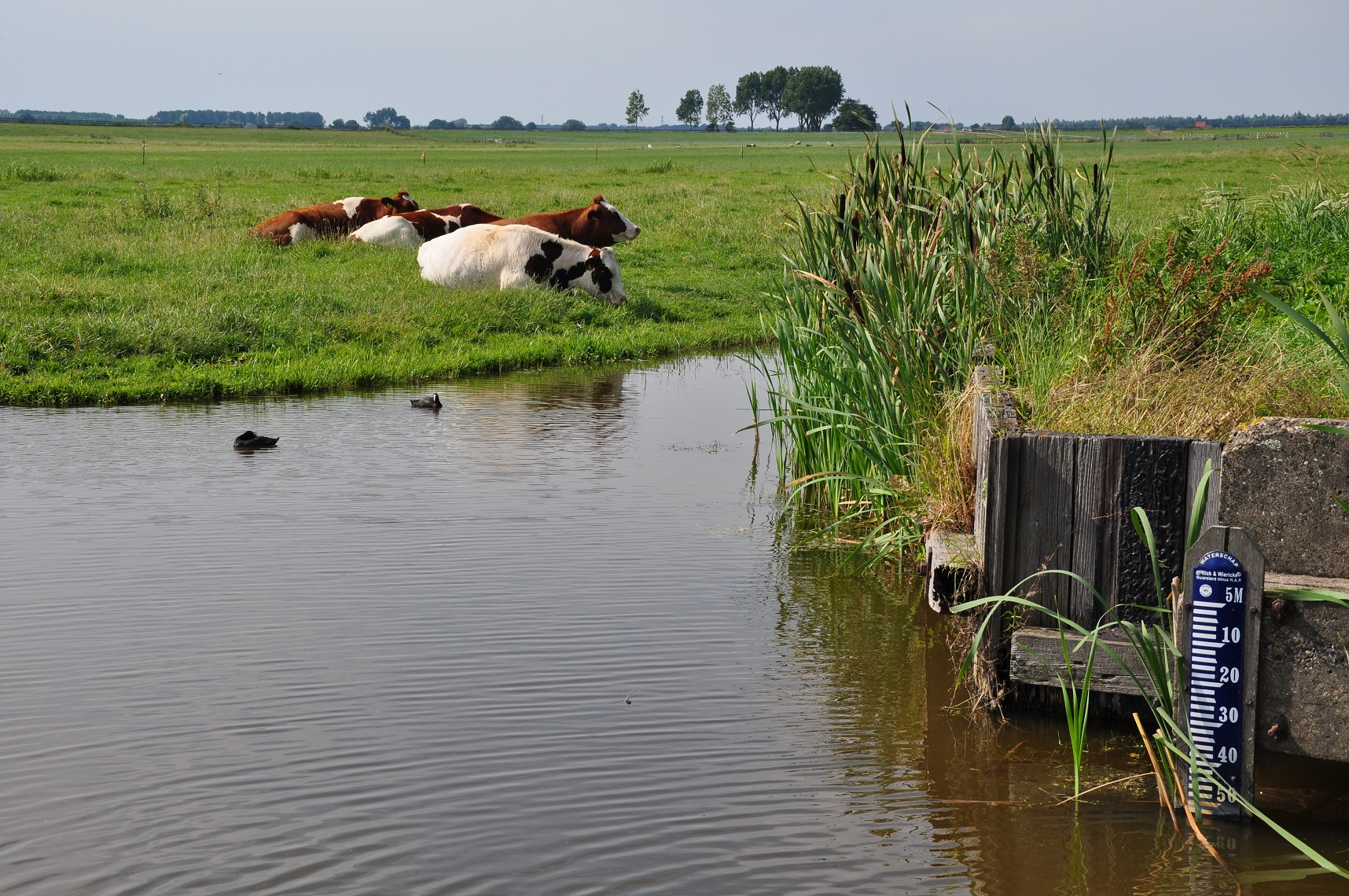 A scale measuring the water level in a polder near Zoetermeer, Netherlands. The level is 5.53 meters below "Normaal Amsterdams Peil" which can be translated as Normal Height Datum of Amsterdam. This equals more or less (but not exactly) 5.53 meters below sea level; more than 18 feet.